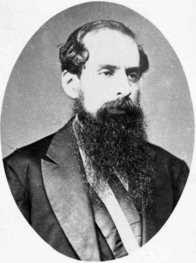 Eustorgio Salgar, President of the United States of Colombia (1870-1872).